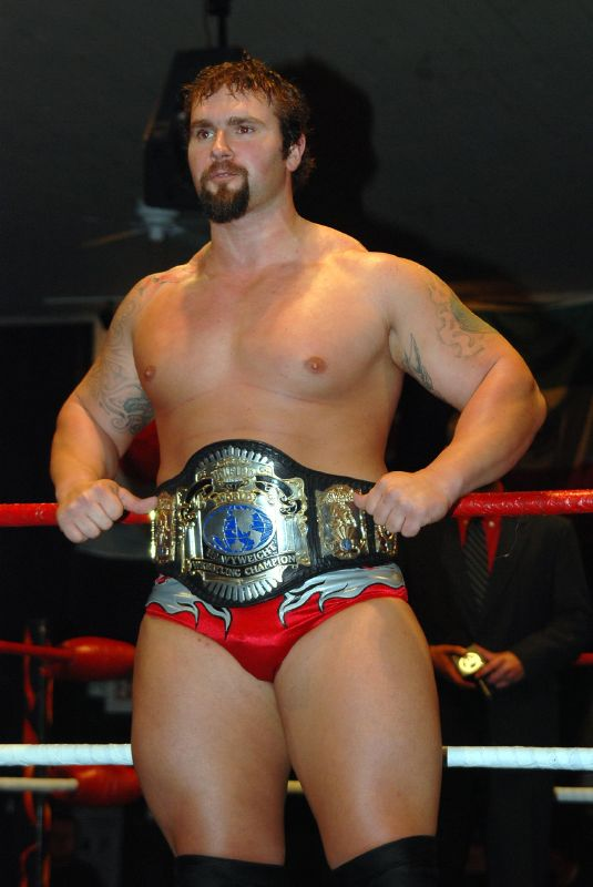 Anarchy Champion Phill Shatter